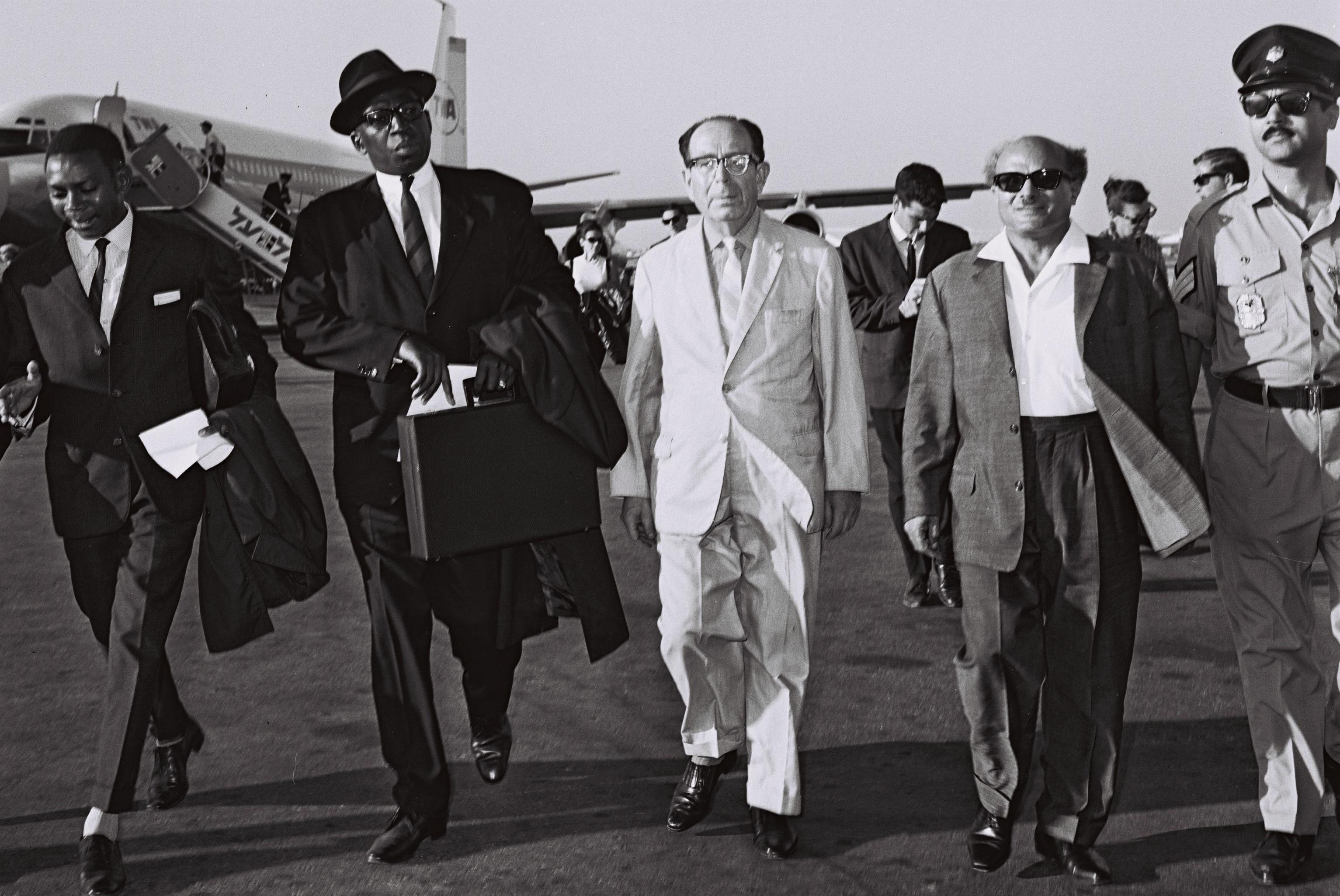 Pres. of Rwanda national assembly Balthazar Bicamumpaka (2nd l) arrving at Lod airport for inauguration of the new Knesset building in Jerusalem.